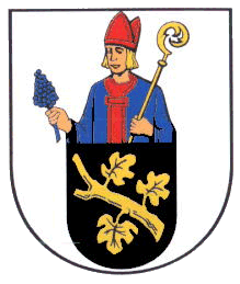 Coat of arms of Kölleda since 1998